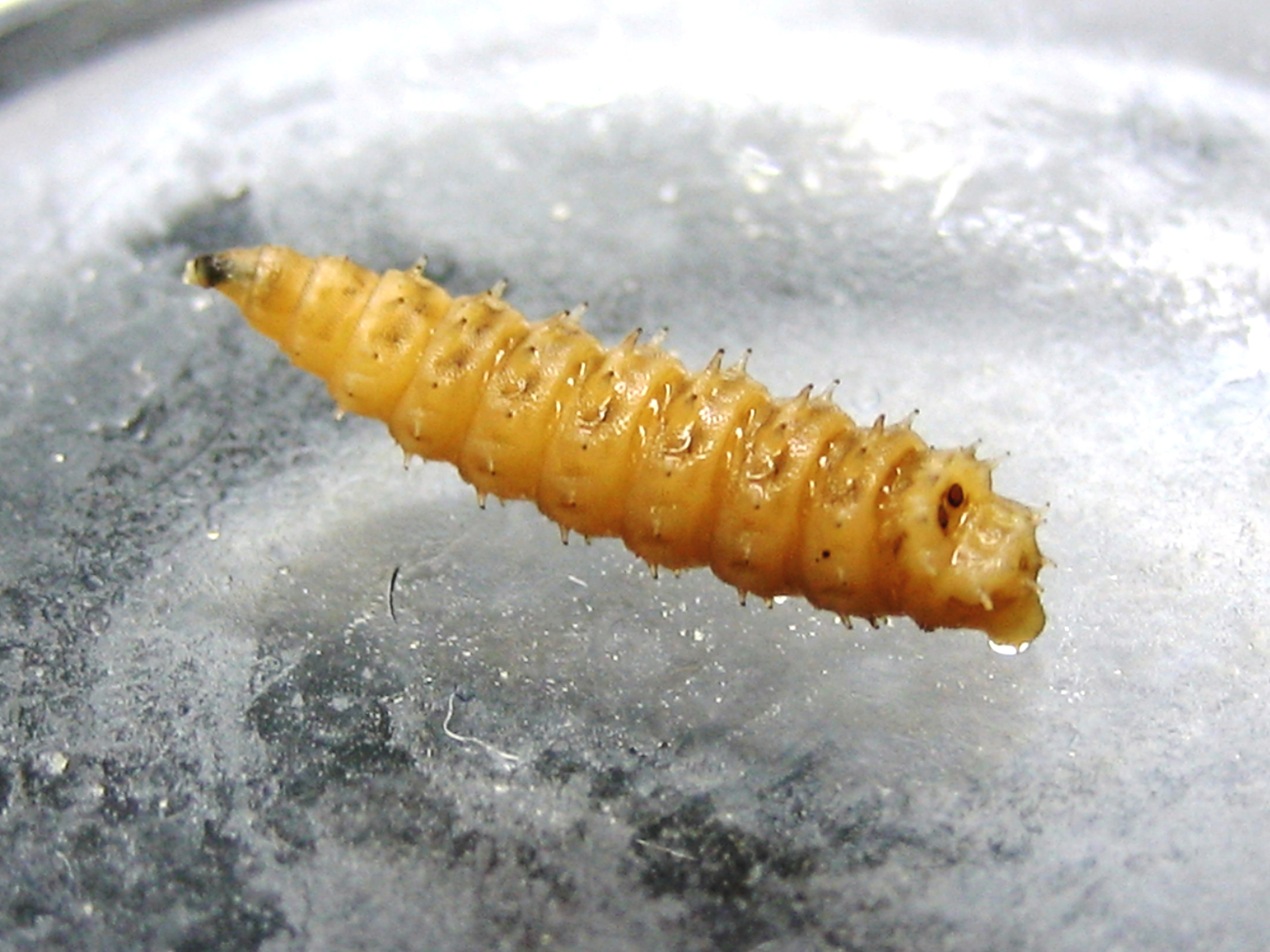 An instar of Chrysomya rufifacies